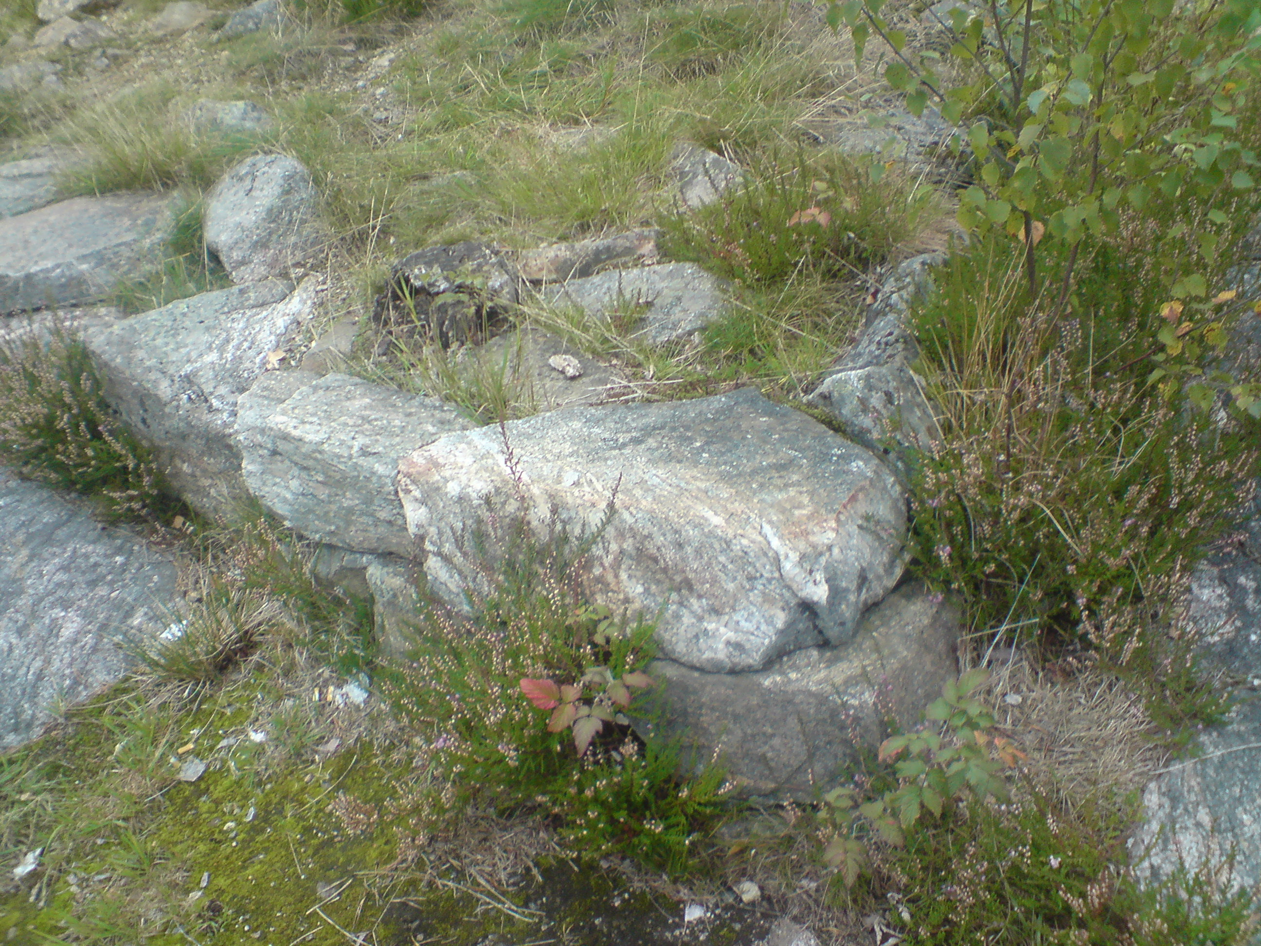 Detail from the ruins of sconce at Ellingsrud North from the war towards Sweden in 1716